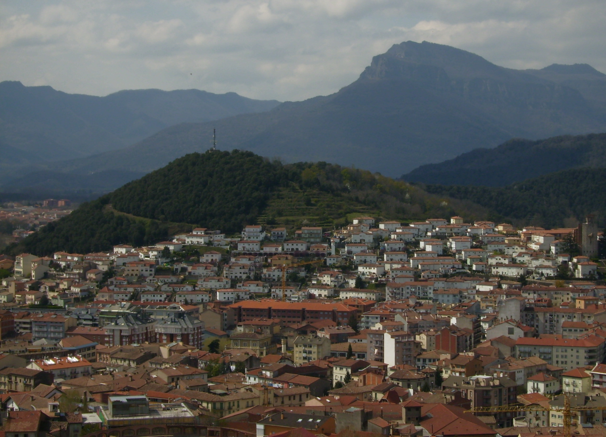 Montolivet volcano in Olot (Catalonia)